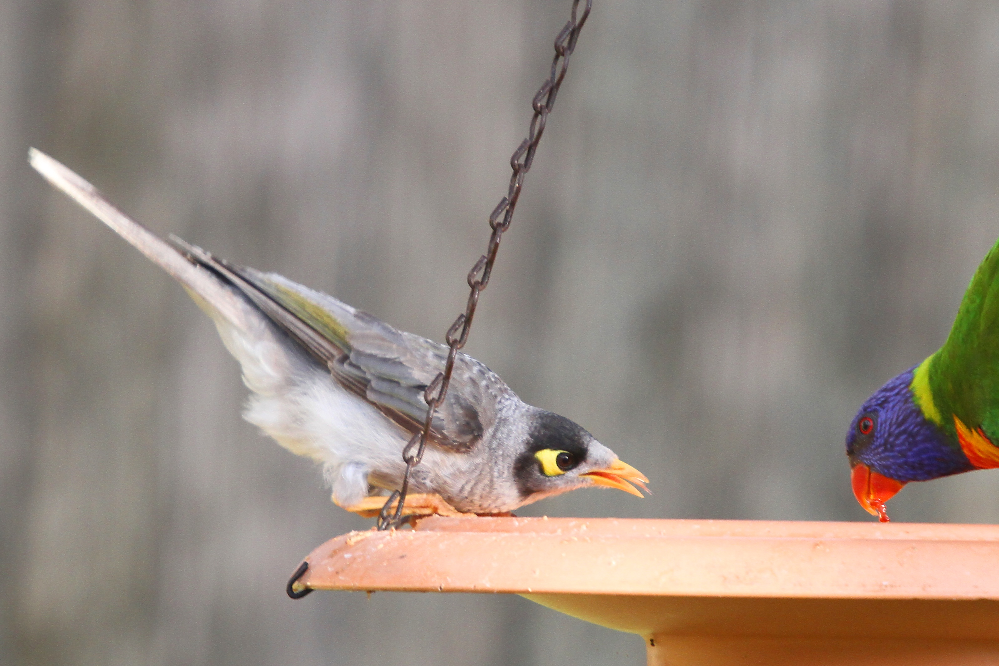 Noisy Miner pointing at a Rainbow Lorikeet in a mild threat display